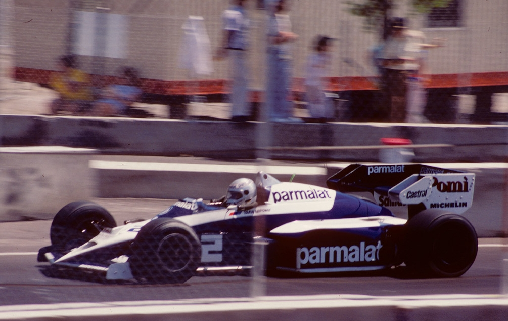 Corrado Fabi in his #2 Brabham-BMW. Fabi placed 7th at this GP.